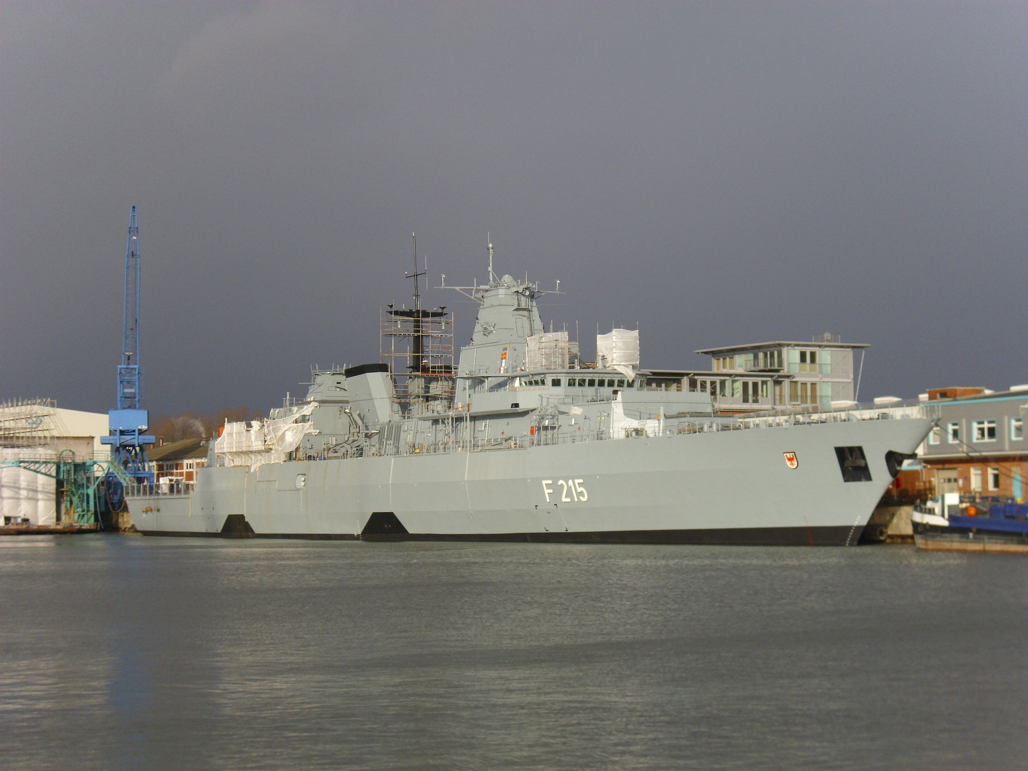 The frigate Brandenburg of the German Navy undergoing maintenance works at MWB in Bremerhaven